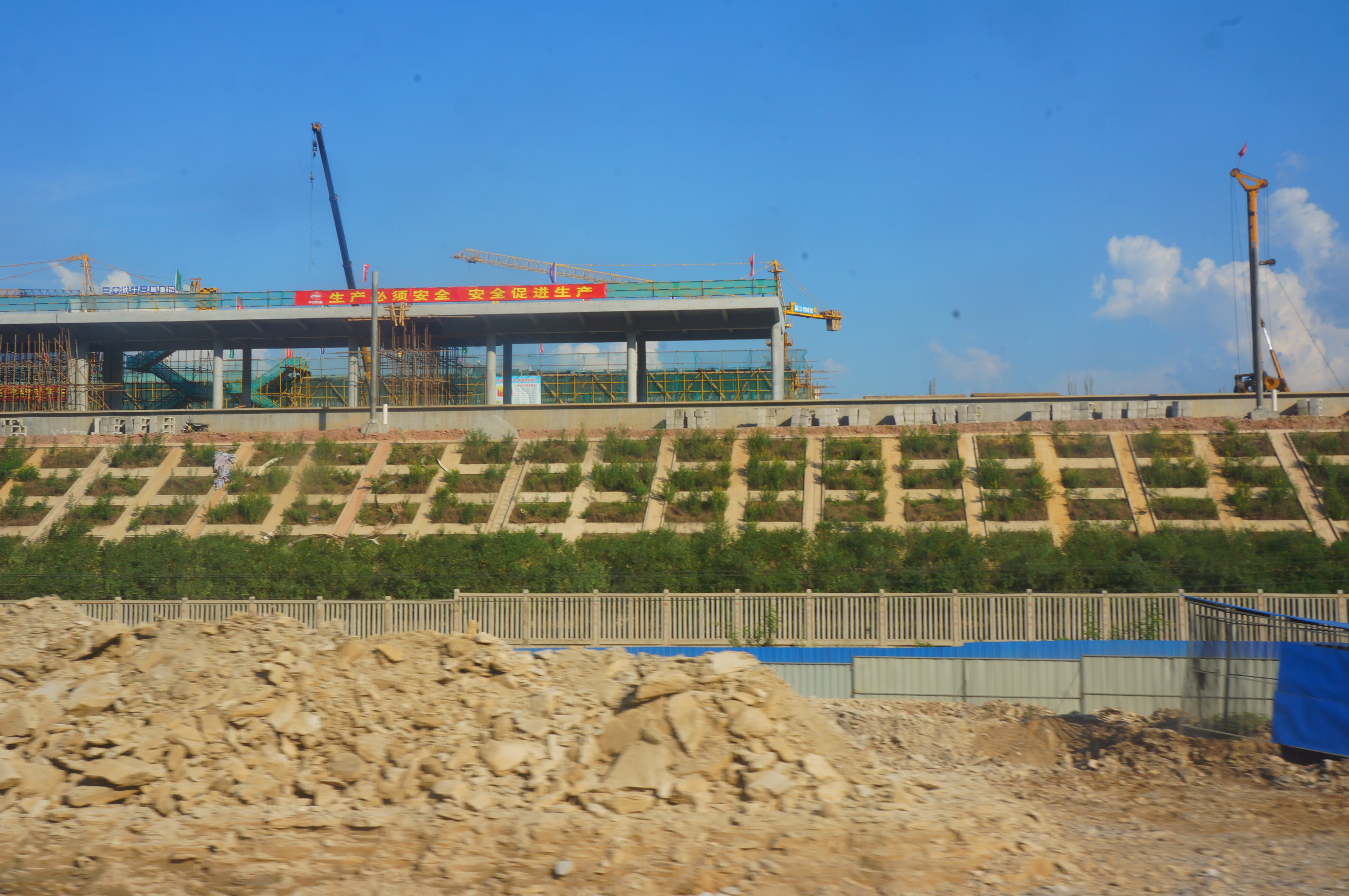 201708 Sanmingnan Station under Construction. Sanmingnan is not a station on Yingtan-Xiamen Railway...